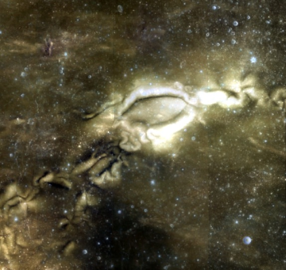 NASA Clementine UV-VIS color image of the Reiner Gamma albedo feature on the Moon. The image uses 3 UV-VIS wavelength ratios as its red (750 nm/415 nm), green (750 nm/950 nm), and blue (414 nm/750 nm) channels.